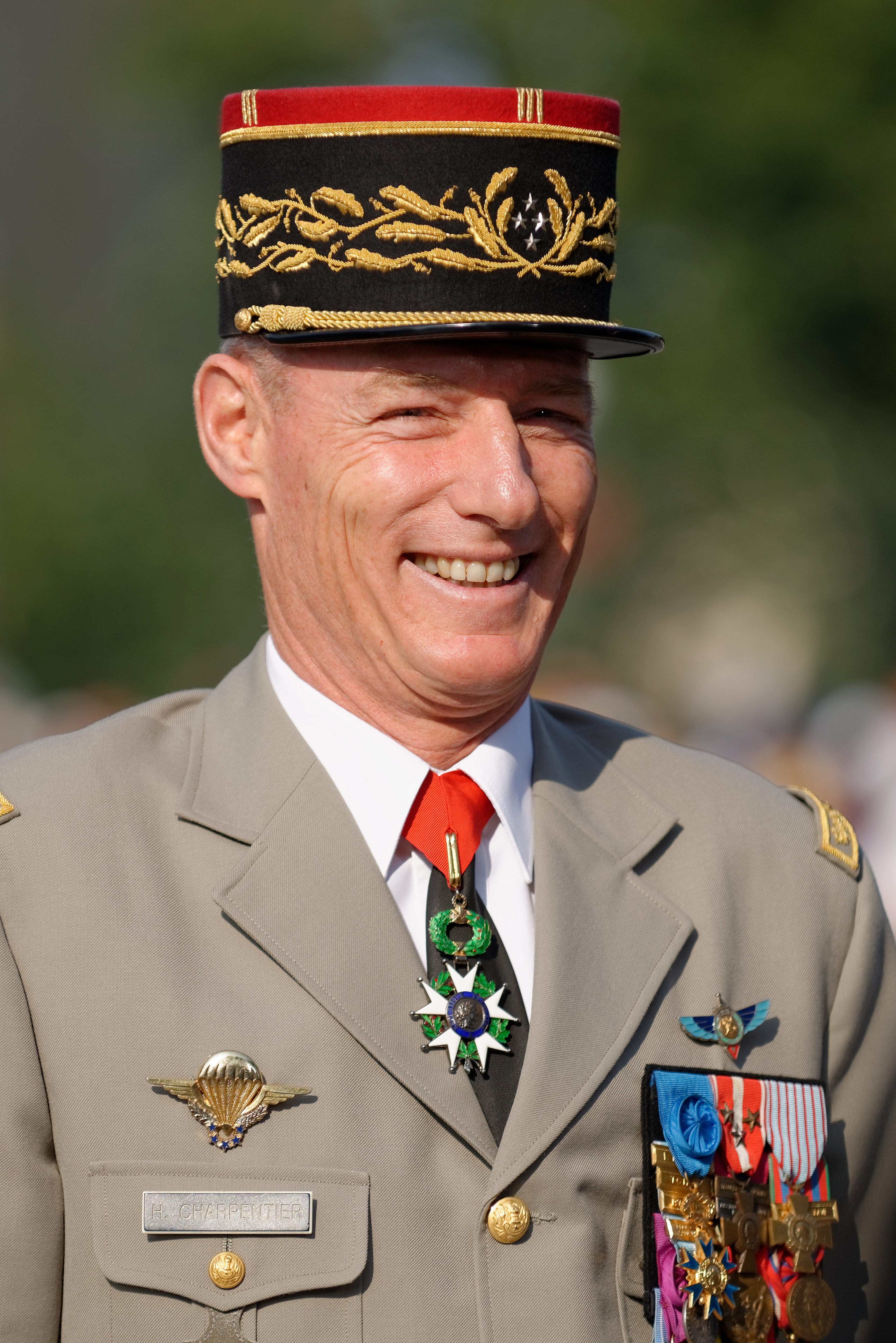 General Hervé Charpentier, military governor of Paris, answers questions from the press before the Bastille Day 2013 military parade on the Champs-Élysées in Paris.